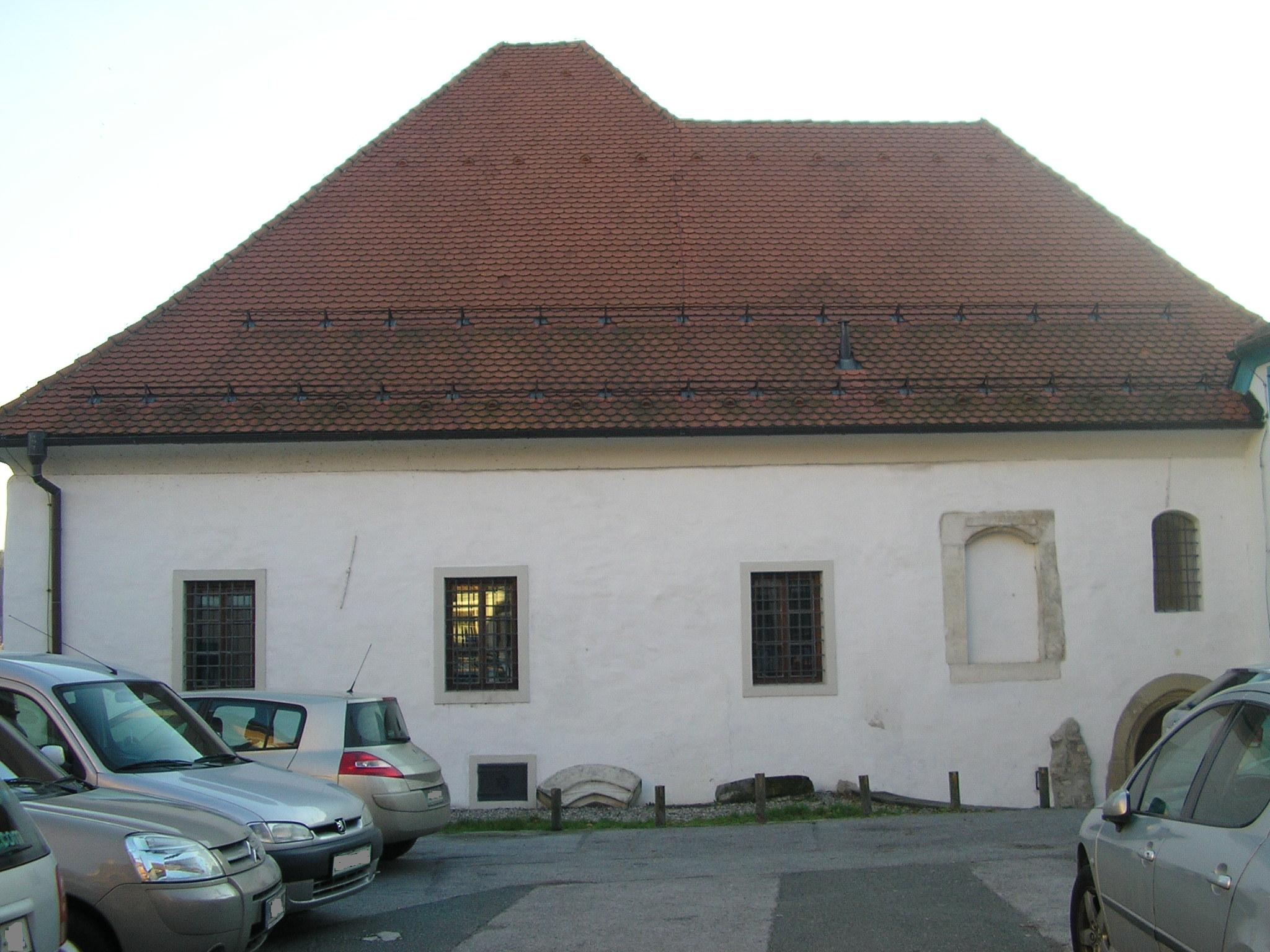 Synagogue in Maribor, Slovenia. Photo taken from Jewish street in Maribor in ex-Jewish geto.